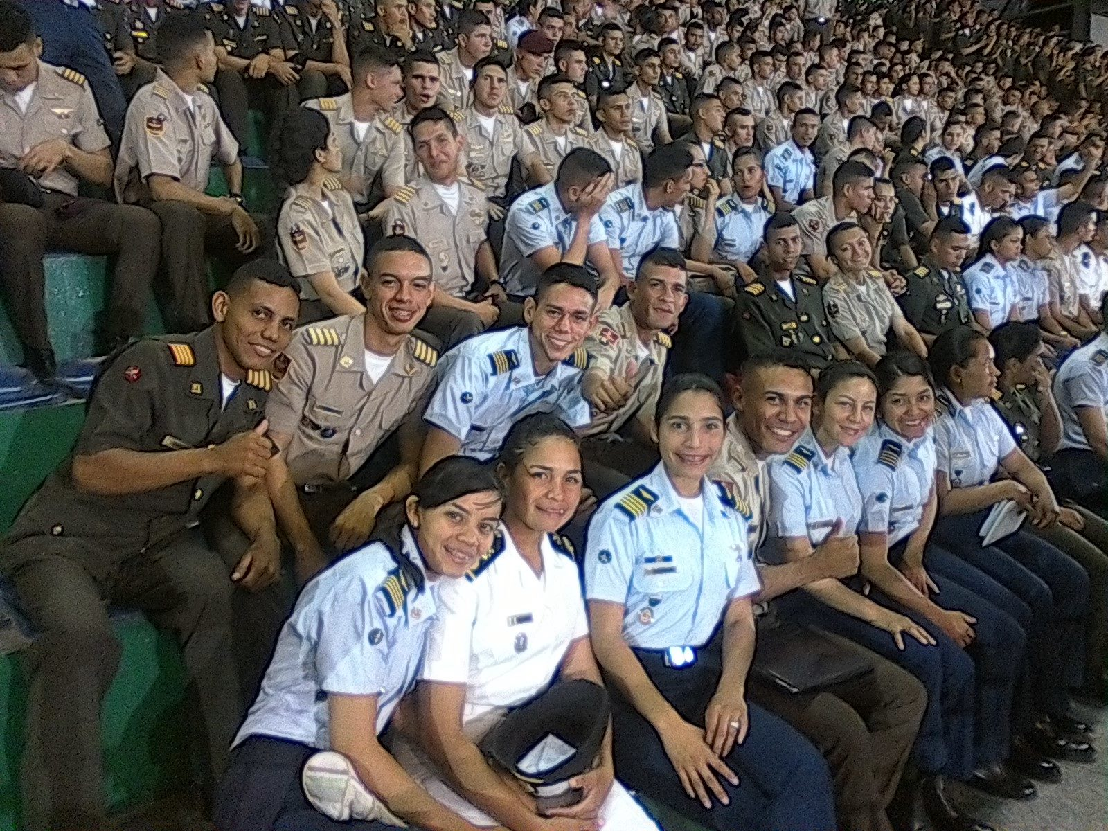 Cadets of the Bolivarian Military Technical Academy (ATMB).